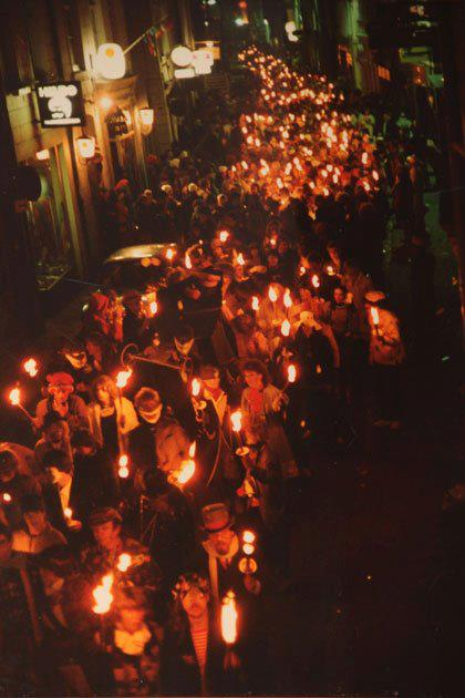 Picture of Maske Begrave march in Sittard